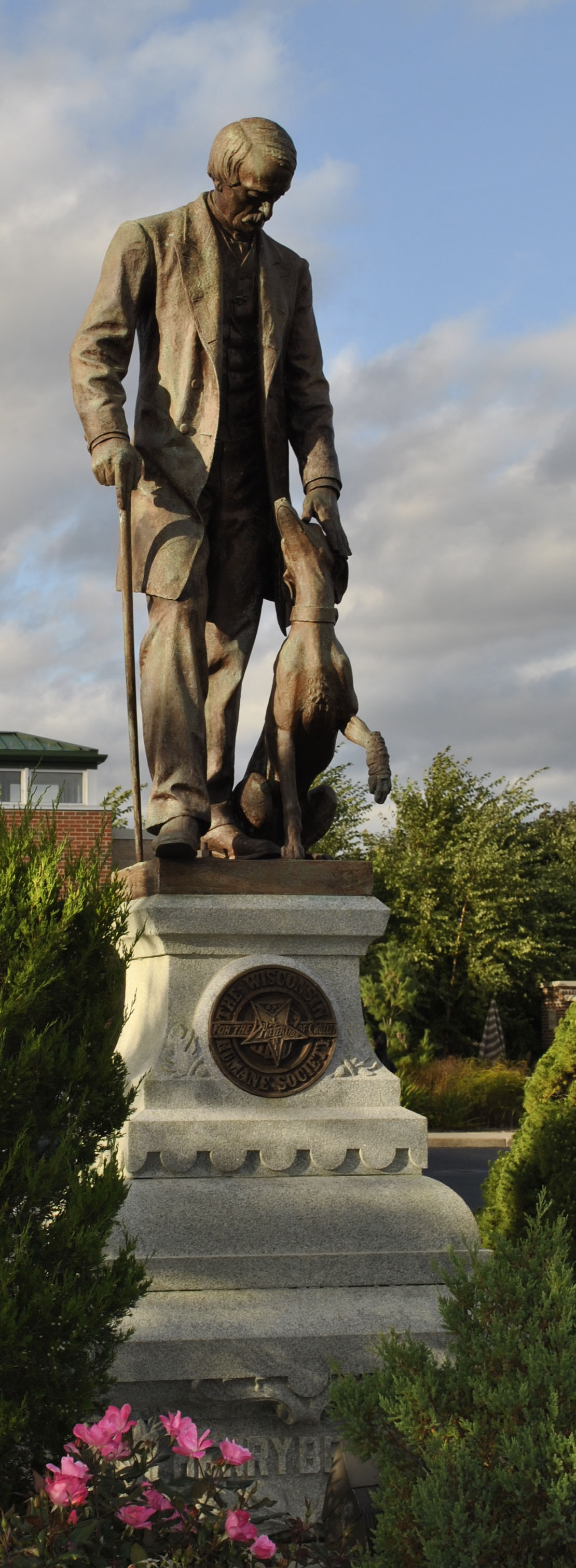 Statue of Henry Bergh by John Mahoney (1891) at the Wisconsin Humane Society in Milwaukee, Wisconsin